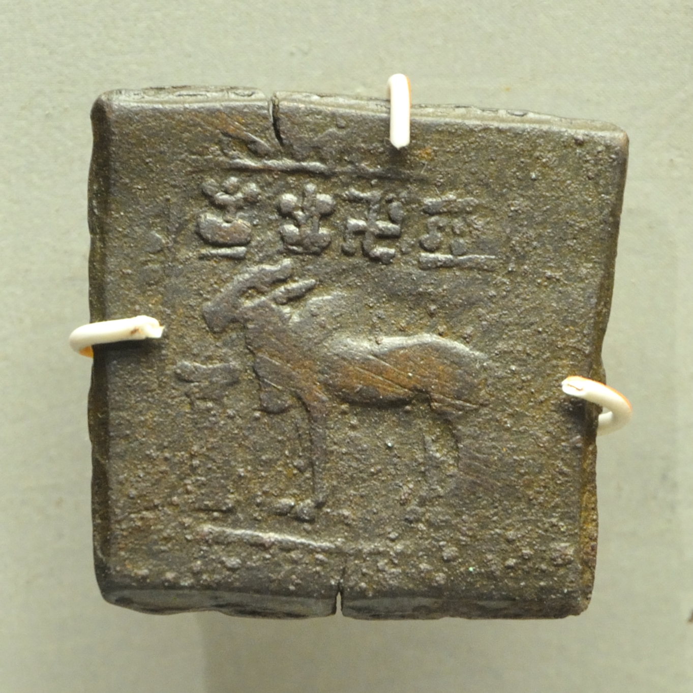 Photographed in Kolkata